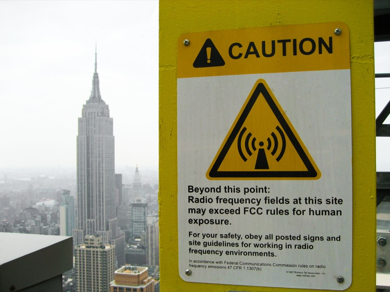 Warning sign on top of 4 Times Square NYC